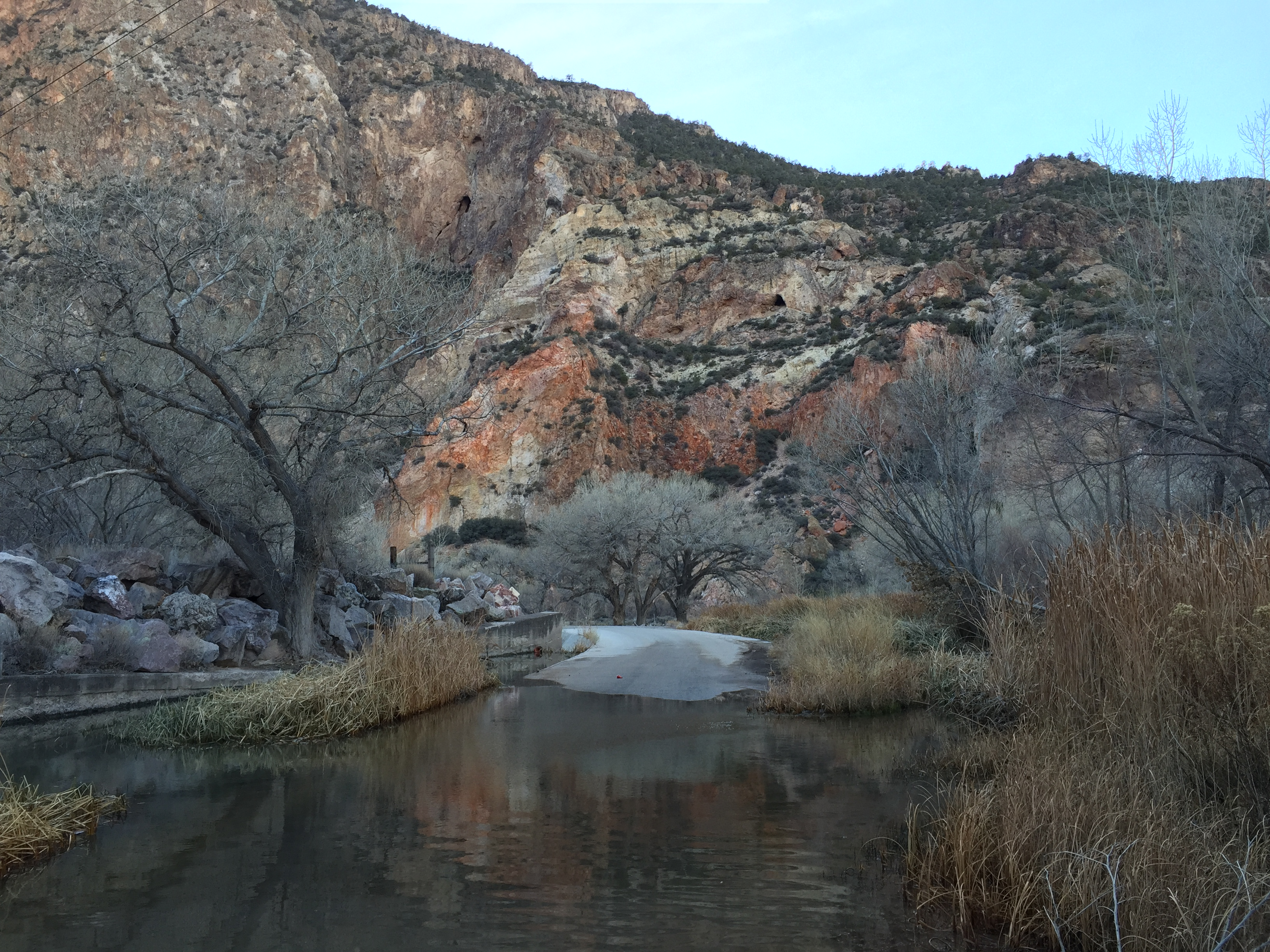 View south at a washed out section of Nevada State Route 317 south of Caliente, Nevada